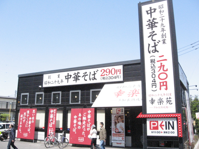 Ramen shop "Korakuen" Chofu-jindaiji shop.